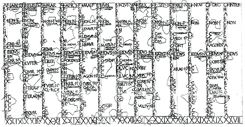 Fasti Antiates Maiores — Miniature black and white image of a 1 m high by 2.5 m wide fragmentary fresco of a pre-Julian Roman calendar (black and red letters on a white background) found in the ruins of Nero's villa at Antium (Anzio). The lengths of January to December are 29, 28, 31, 29, 31, 29, 31, 29, 29, 31, 29, 29 days each in years without the leap month Intercalaris. Now in the Palazzo Massimo. See Fasti Antiates. Adapted for legibility from a class handout.